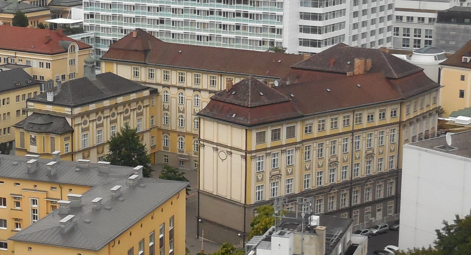 Grammar School "Bundesrealgymnasium Fadingerstraße" in Linz, Austria. Seen from the "Keine Sorgen Tower" as part of the Höhenrausch 2014. Originally uploaded (by myself) to under CC-BY-SA 3.0.